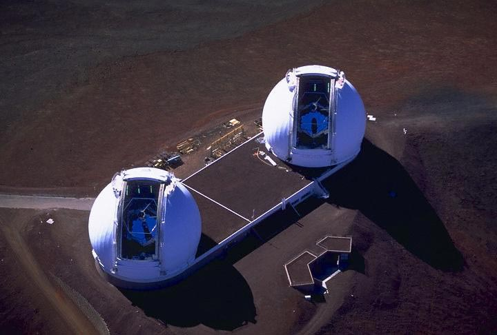 The W. M. Keck Observatory on Mauna Kea, Hawai'i.